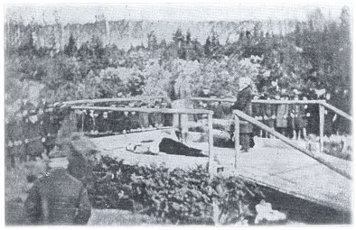 The execution of Gustav Adolf Eriksson Hjert i Villåttinge, Södermanland 1876.